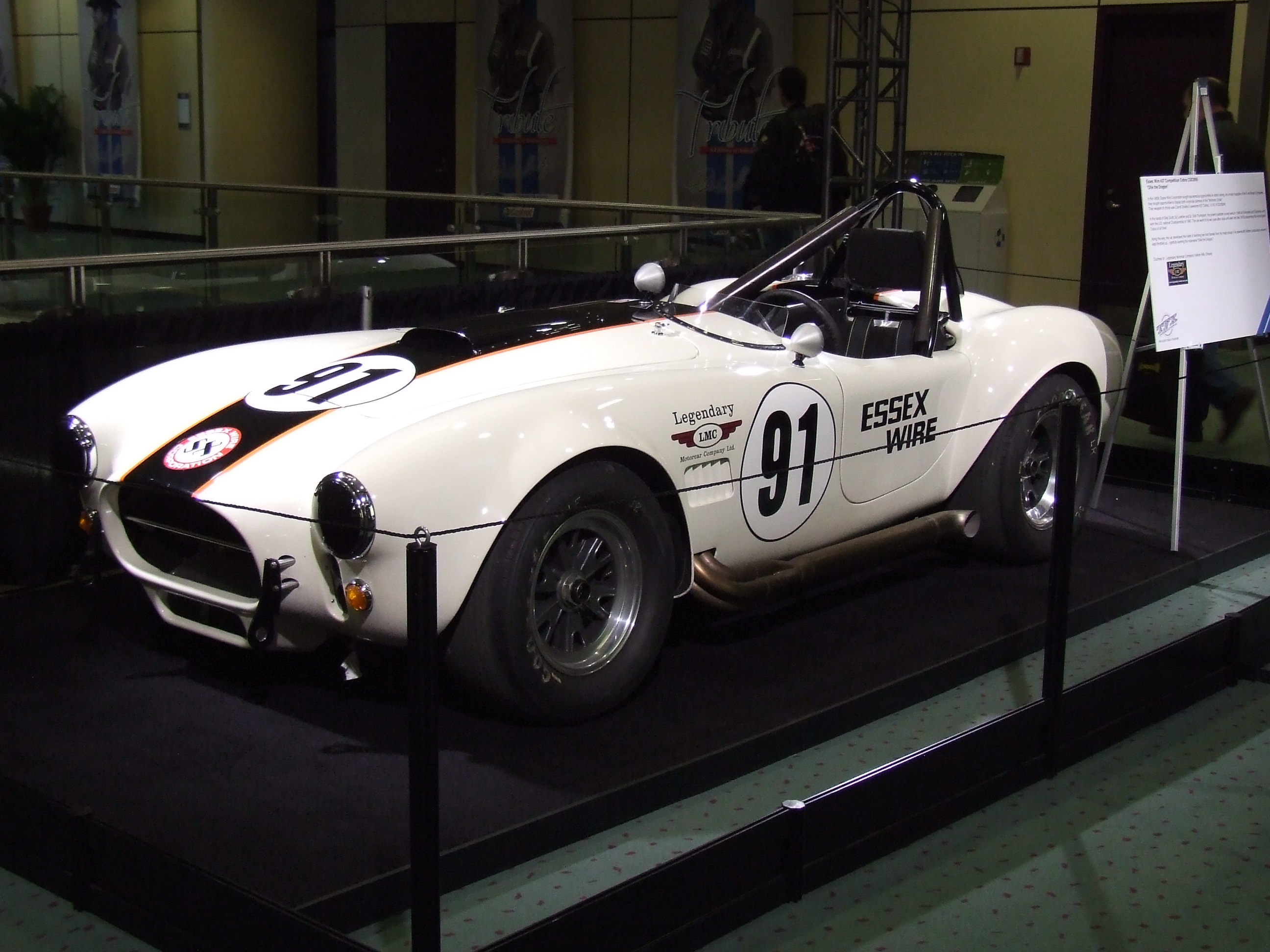 Shelby AC Cobra competition 427, (CSX3009) "Ollie the Dragon", 2010 Canadian International AutoShow.